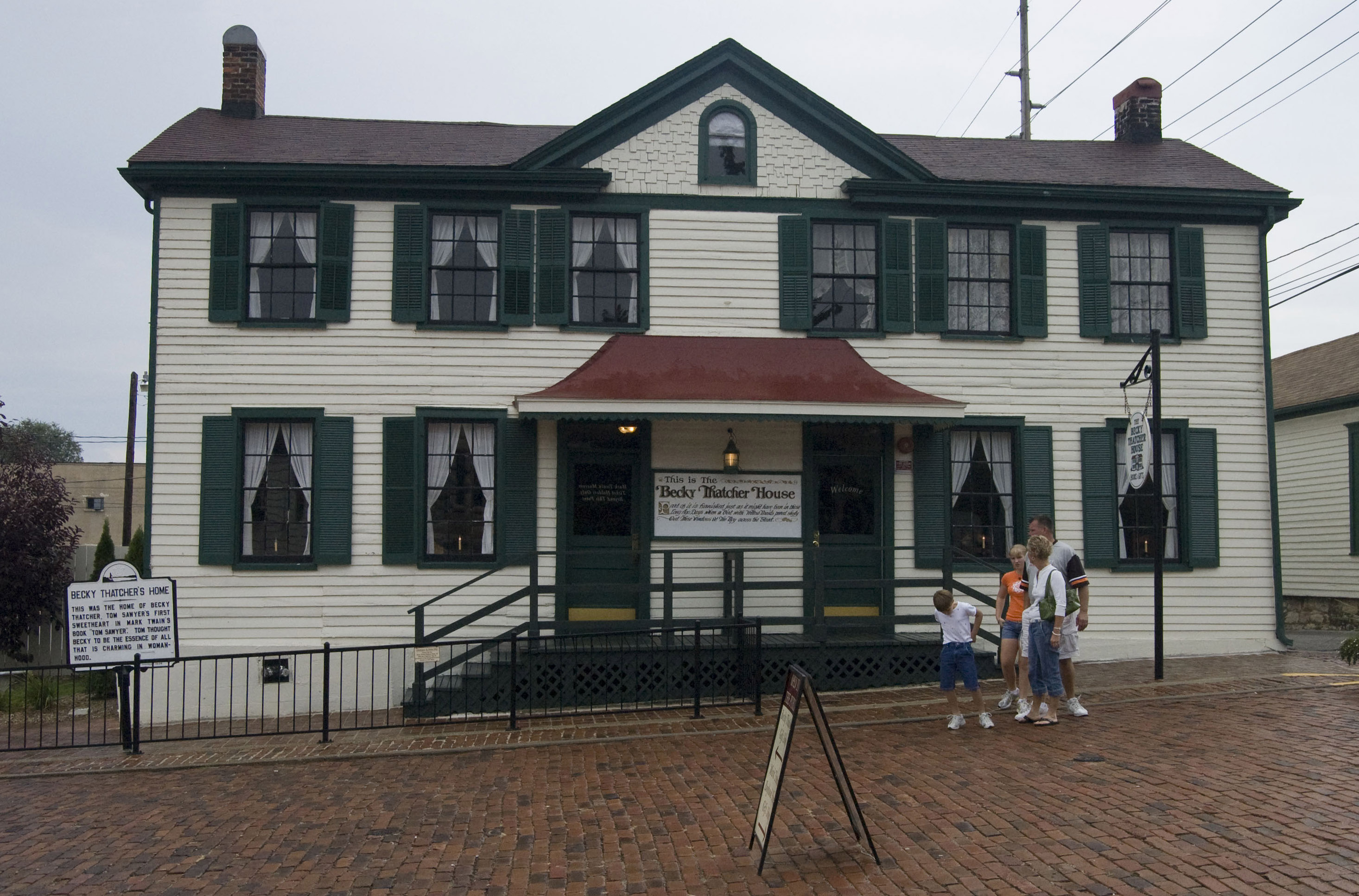 The "Becky Thatcher House" in Hannibal, Missouri. This building is across the street from Mark Twain's boyhood home. It was the home of the girl Mark Twain used as the model for Becky Thatcher.